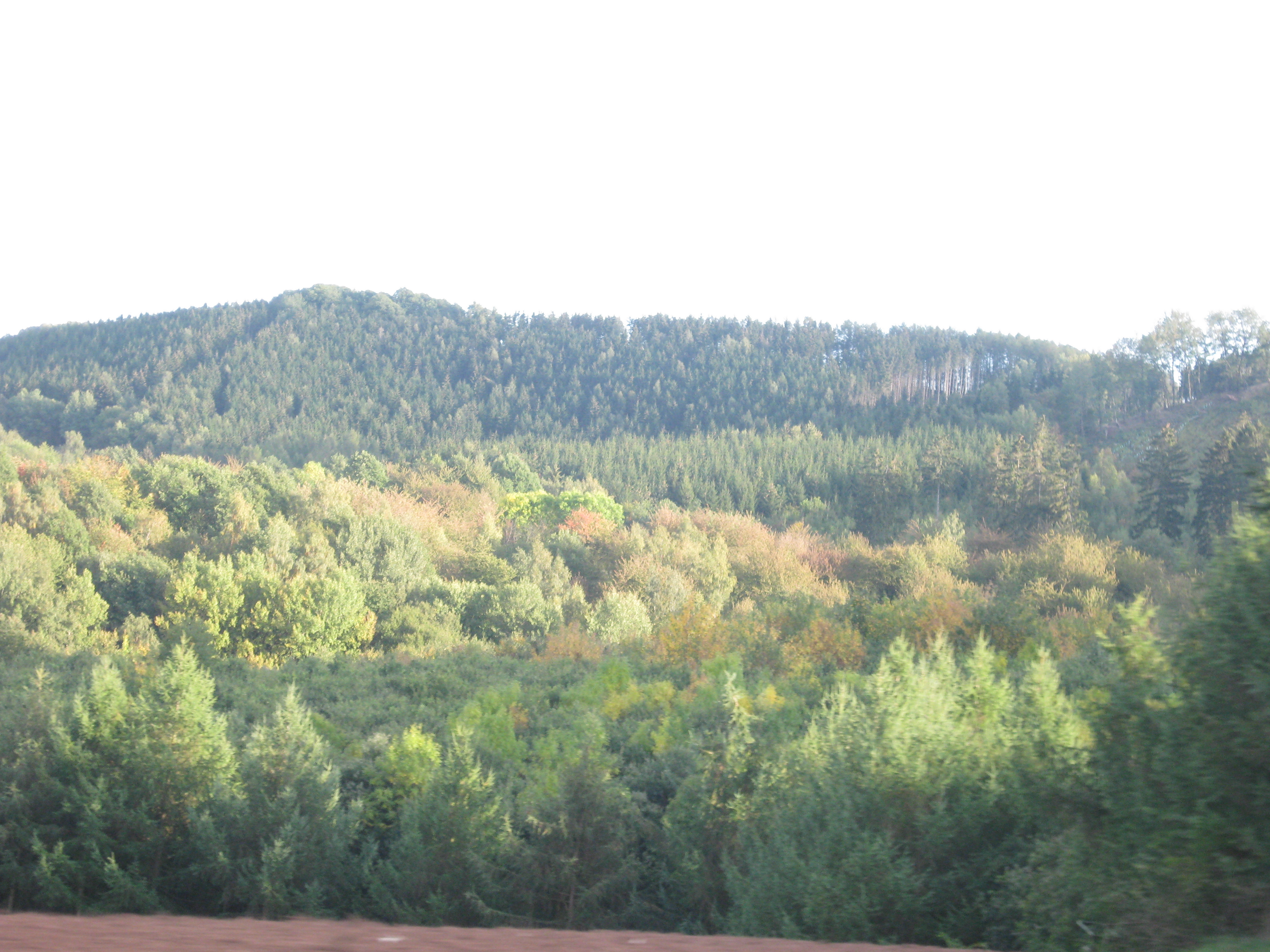 Zehnsberg near Berlingerode